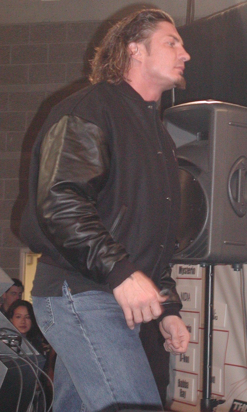 I took this photo of Sean O'Haire at WWE Fan Axxess. Seahawk Stadium, Seattle, March 2003.